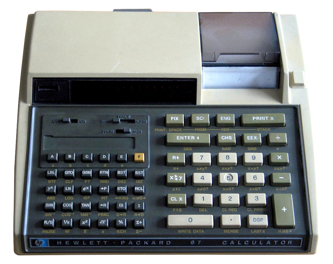 front view of a hp-97 showing the end of the anti-theft-attachment at the back